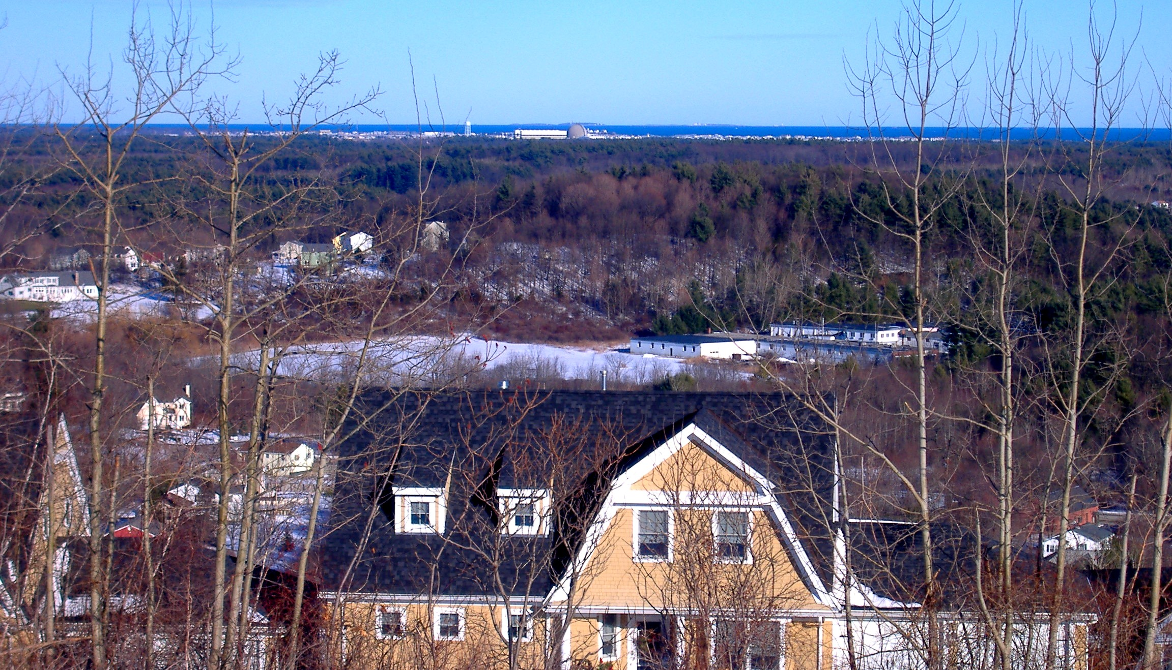 Seabrook Station (center background) seen from Powwow Hill in nearby Amesbury, Massachusetts